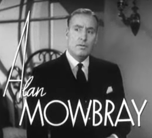 Cropped screenshot of Alan Mowbray from the trailer for the film Topper Takes a Trip